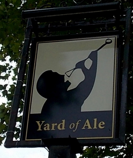 Yard of Ale name sign, Stratford-upon-Avon